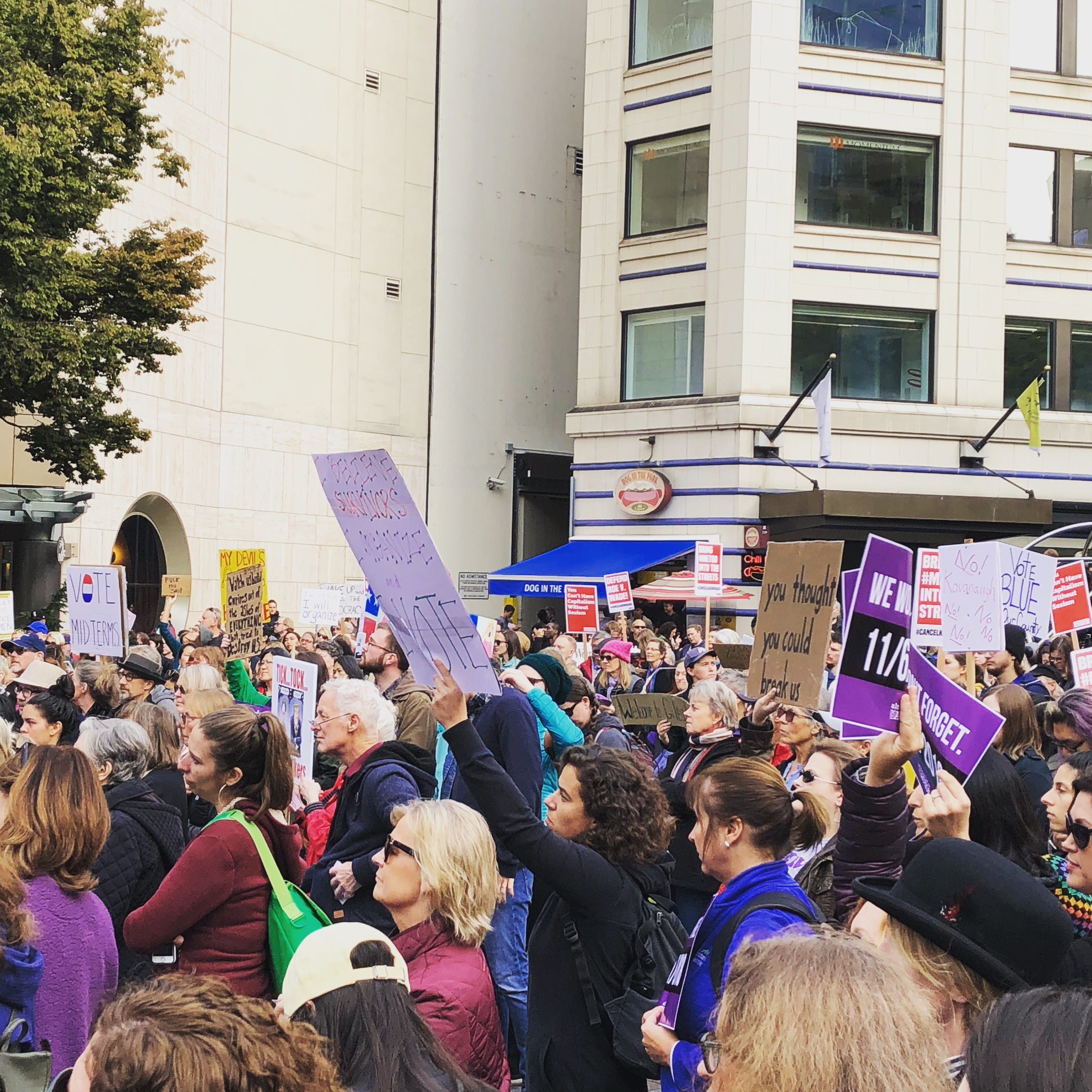 A protest against the confirmation of Brett Kavanaugh as Associate Justice of the United States was held in Seattle, Washington on 6 October 2018.